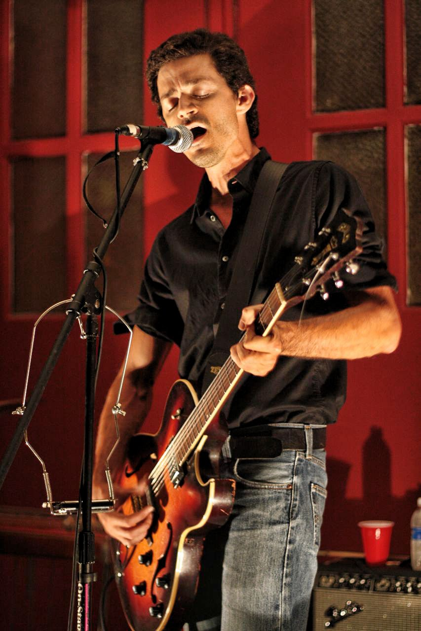 AA Bondy plays at a firehouse in LA.